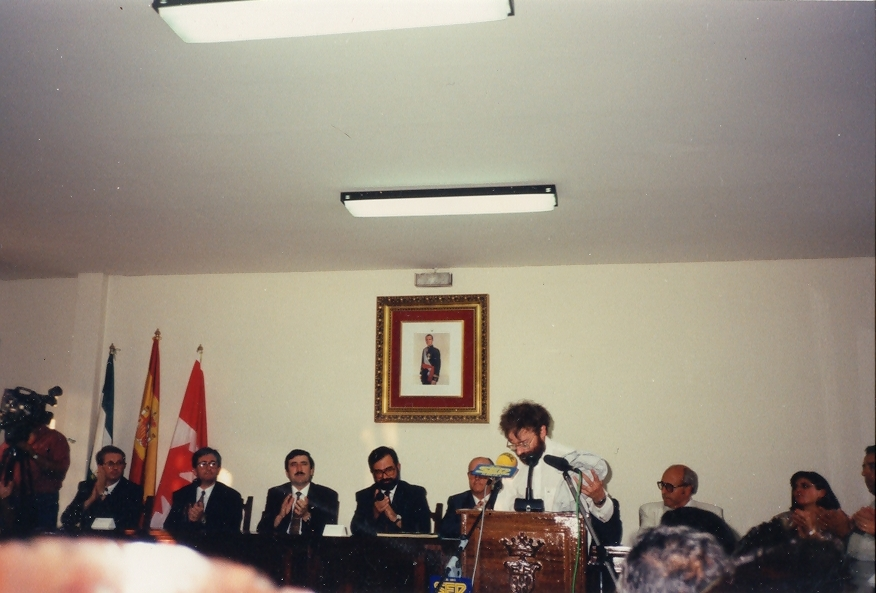 Twinning Ceremony of Cabra and Galiano Island on the bicentenary of Dionisio Alcalá Galiano's voyage. Cabra city hall, 1992. Mayor José Calvo Poyato presiding; Andrew Loveridge (speaker) representing Galiano Island.